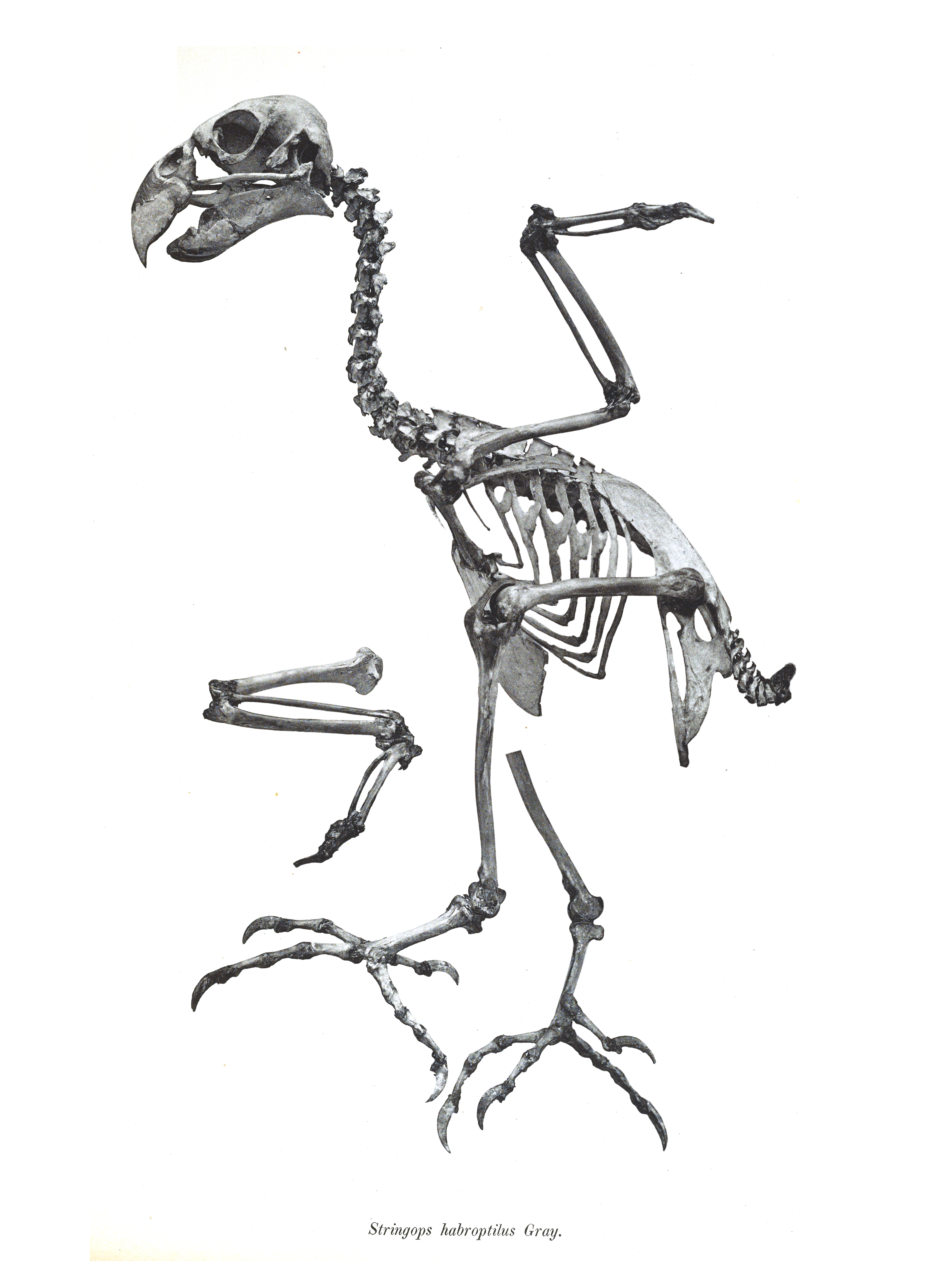 Stringops habroptilus